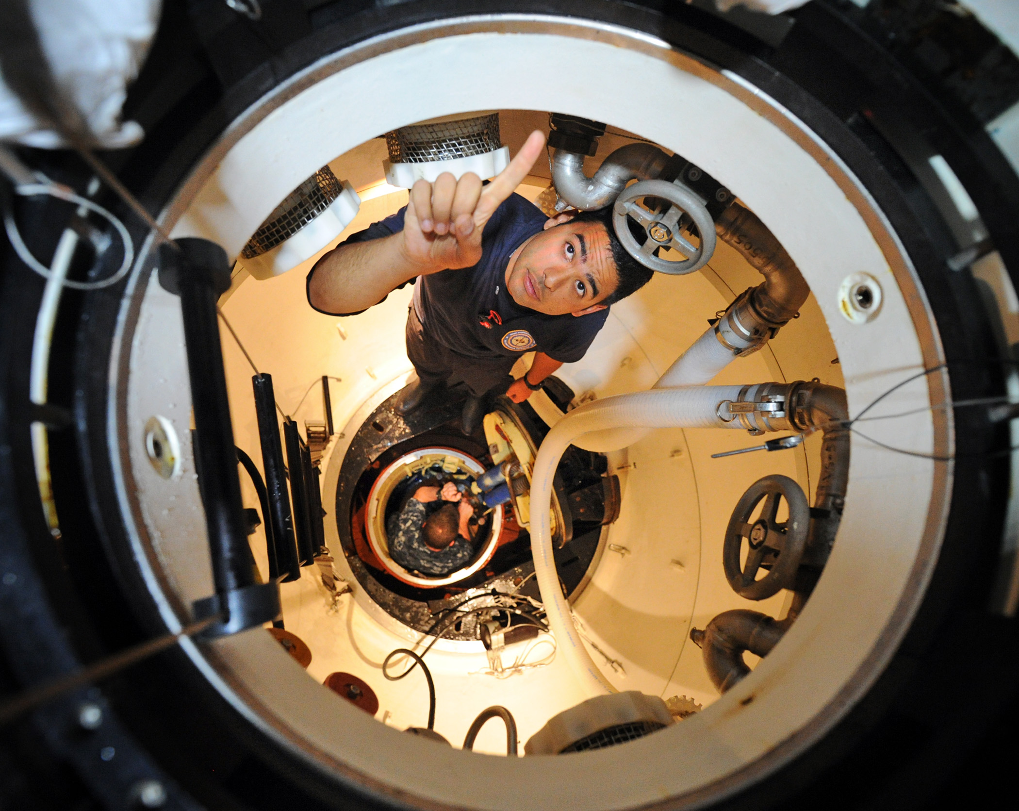 MEDITERRANEAN SEA (June 7, 2011) Machinist's Mate 2nd Class Joel Rivera, right, assigned to Deep Submergence Unit, directs members of the media down the hatch of the Submarine Rescue Diving and Recompression System during a submarine rescue exercise as part of exercise Bold Monarch 2011. The U.S. submarine rescue vehicle mated with the Russian submarine SSK Alrosa (SSK 554), the first time a Russian submarine mated with a U.S. submarine rescue system. Participants and observers from more than 25 countries are taking part in the 12-day NATO exercise, which is the world's largest submarine rescue exercise. (U.S. Navy photo by Mass Communication Specialist 2nd Class Ricardo J. Reyes/Released)